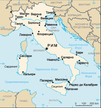 Map of Italy with Russian names